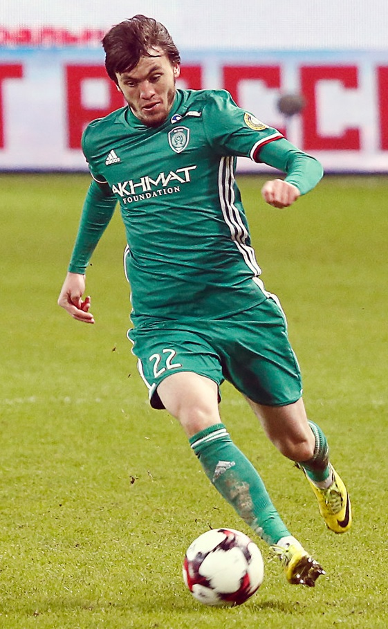 Reziuan Mirzov with FC Terek Grozny in a game against FC Lokomotiv Moscow.